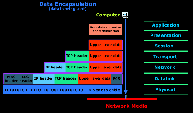 encapsulation